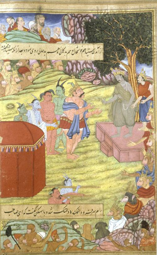 Vibhisana insult by his brother Ravana so he joint Rama's group. Here vibhisana saw with tail which is also seen freer Ramayana of Rahim. According to text, Artist show four ministers. The Miniature also show palakhin carried by demons also show sages, bears & monkeys.